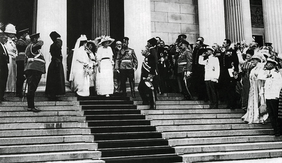 May 31, 1912. Grand opening of the Pushkin Museum in Moscow. Nicholas II with family. The founder of the museum, Ivan Tzvetaev, stands below and to the right of their royal bloodsucking majesties. The guy who actually paid for the museum, Yury Nechaev-Maltsev, stands behid Nicholas's shoulder.